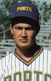 Professional baseball player Brian Drahman